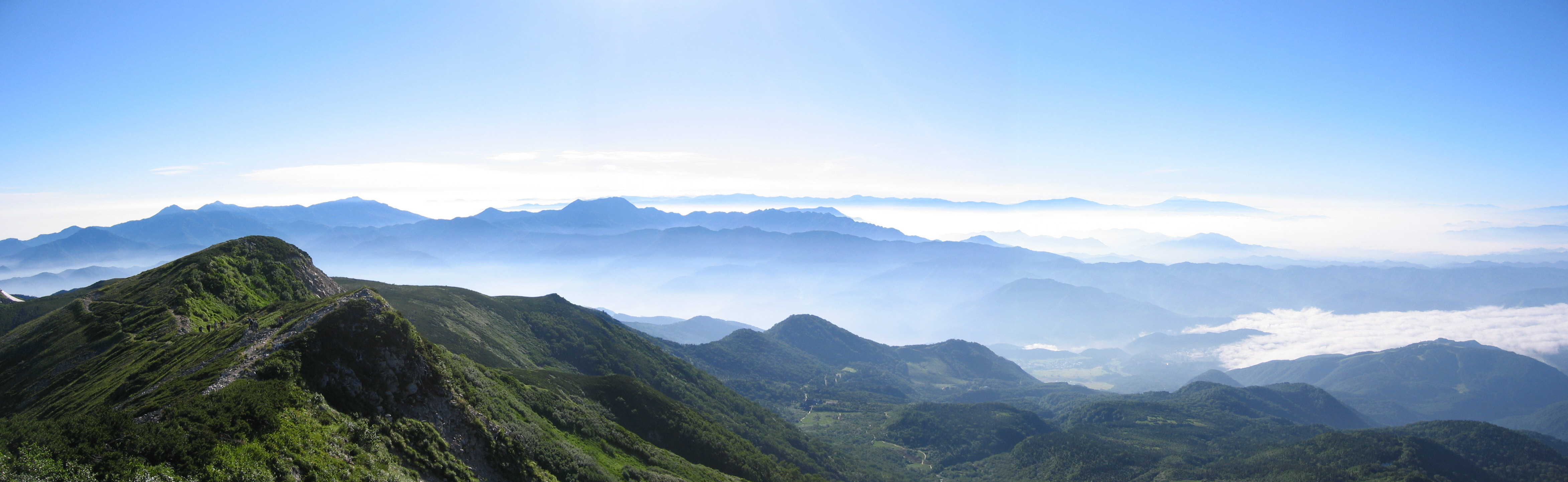 Eastward view from Mount Korenge in the Hida Mountains, Japan